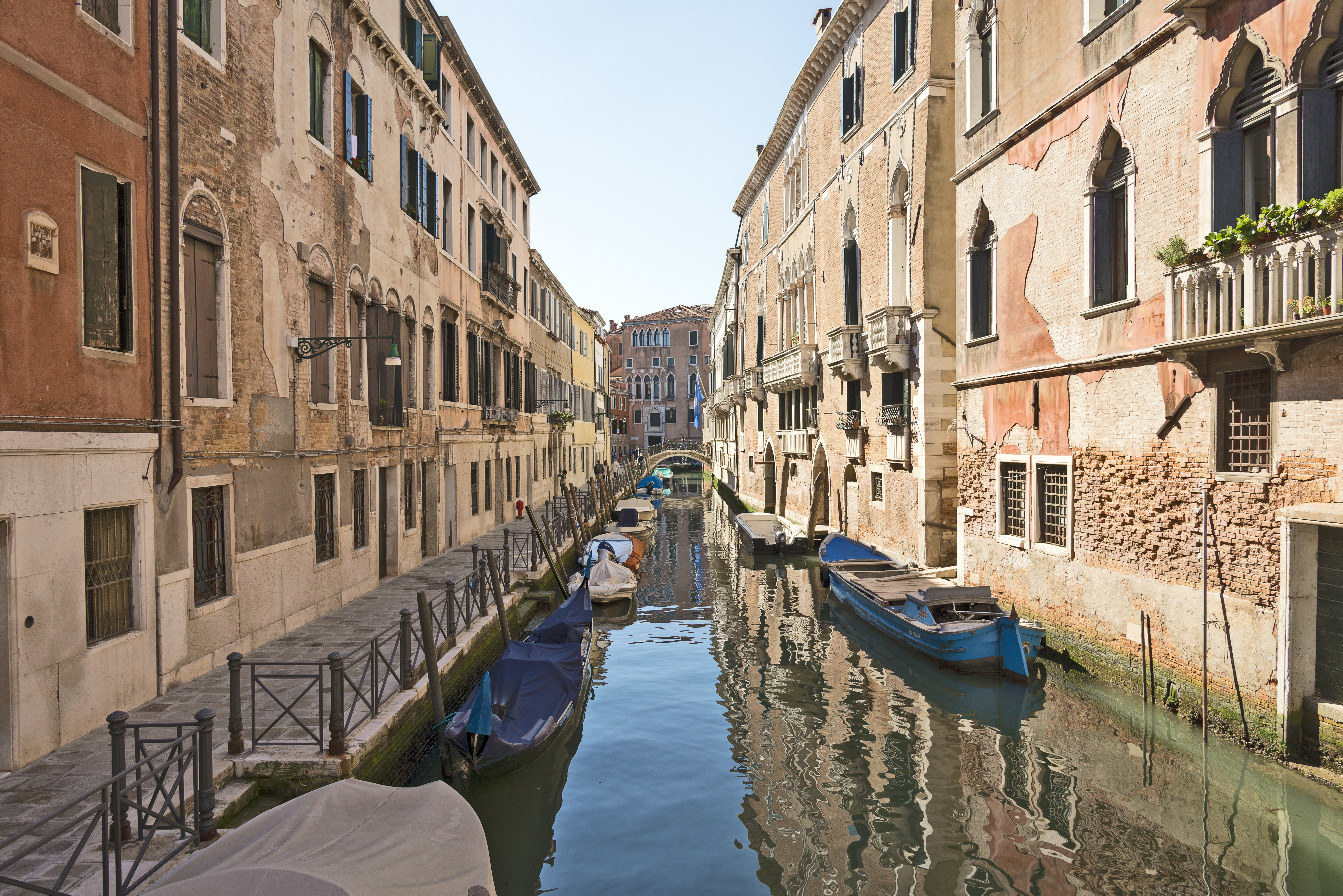 Rio San Severo from Ponte Novo to Ponte San Severo in Venice.